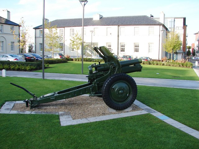 QF 4.5 inch howitzer from the First World War. On the Barracks Square, Ballincollig (Baile an Chollaigh) Ireland.